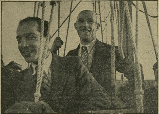 Polish winners Gordon Bennett Cup 1935 in Warszawa.